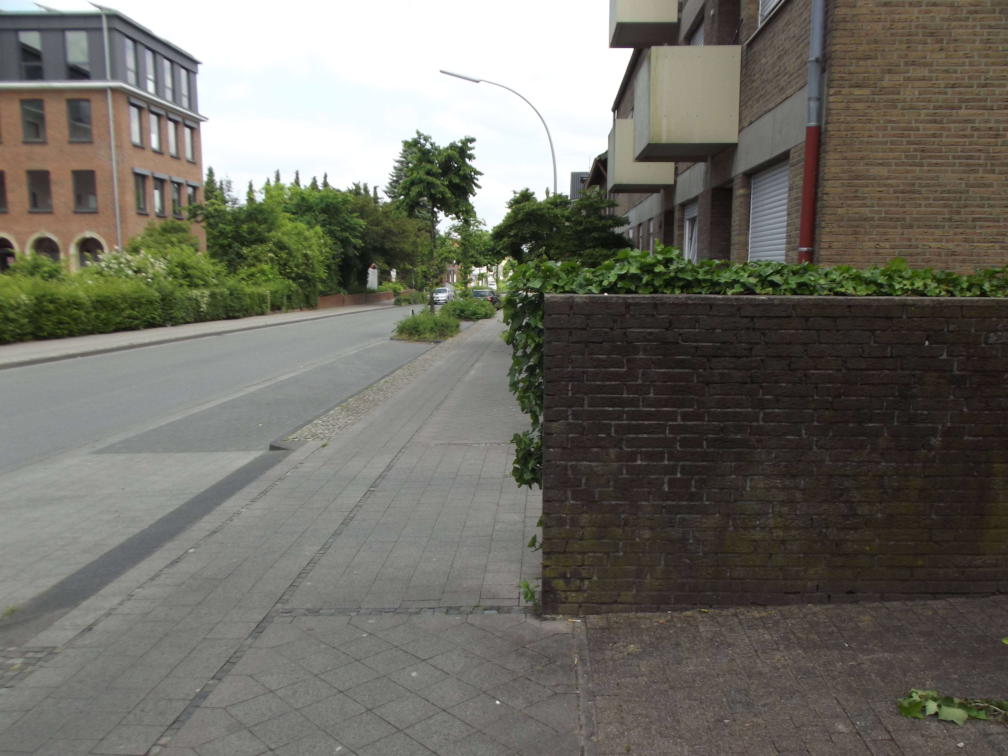 A cyclepath with a protruding wall which covers a private street. Overgrown climbing plants add to that big time. Thus cyclists are endangered by residents who leave the premises by car or bicycle, especially because the overgrown climbing plants obstruct their sight even more.